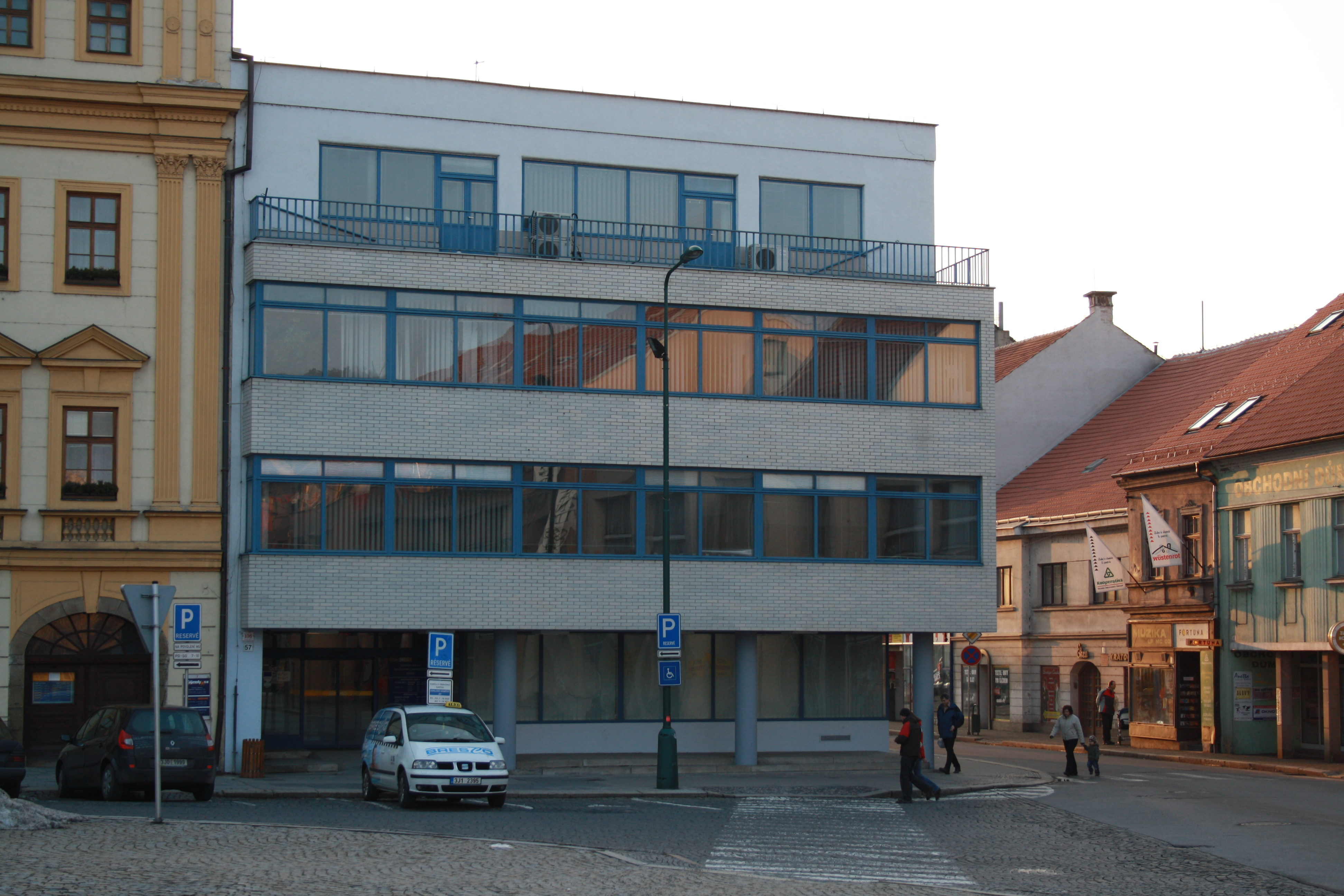 Overview of city savings-bank by Bohuslav Fuchs in Třebíč, Czech Republic.